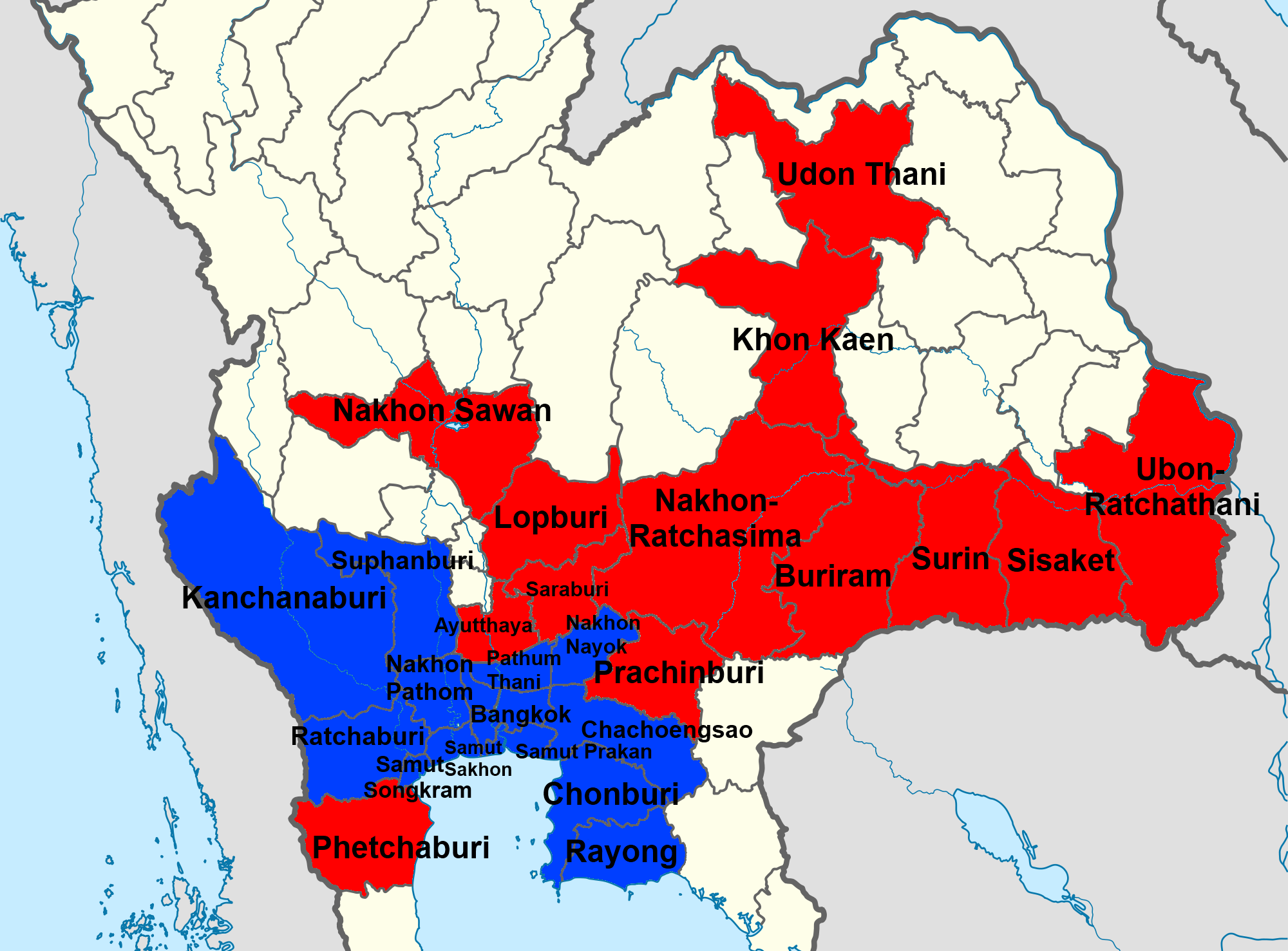 Thailand map of 1933, show the conflicts of provinces between the previous royalist and the Government. Provinces that joined the Boworadet. Provinces that joined the Government.